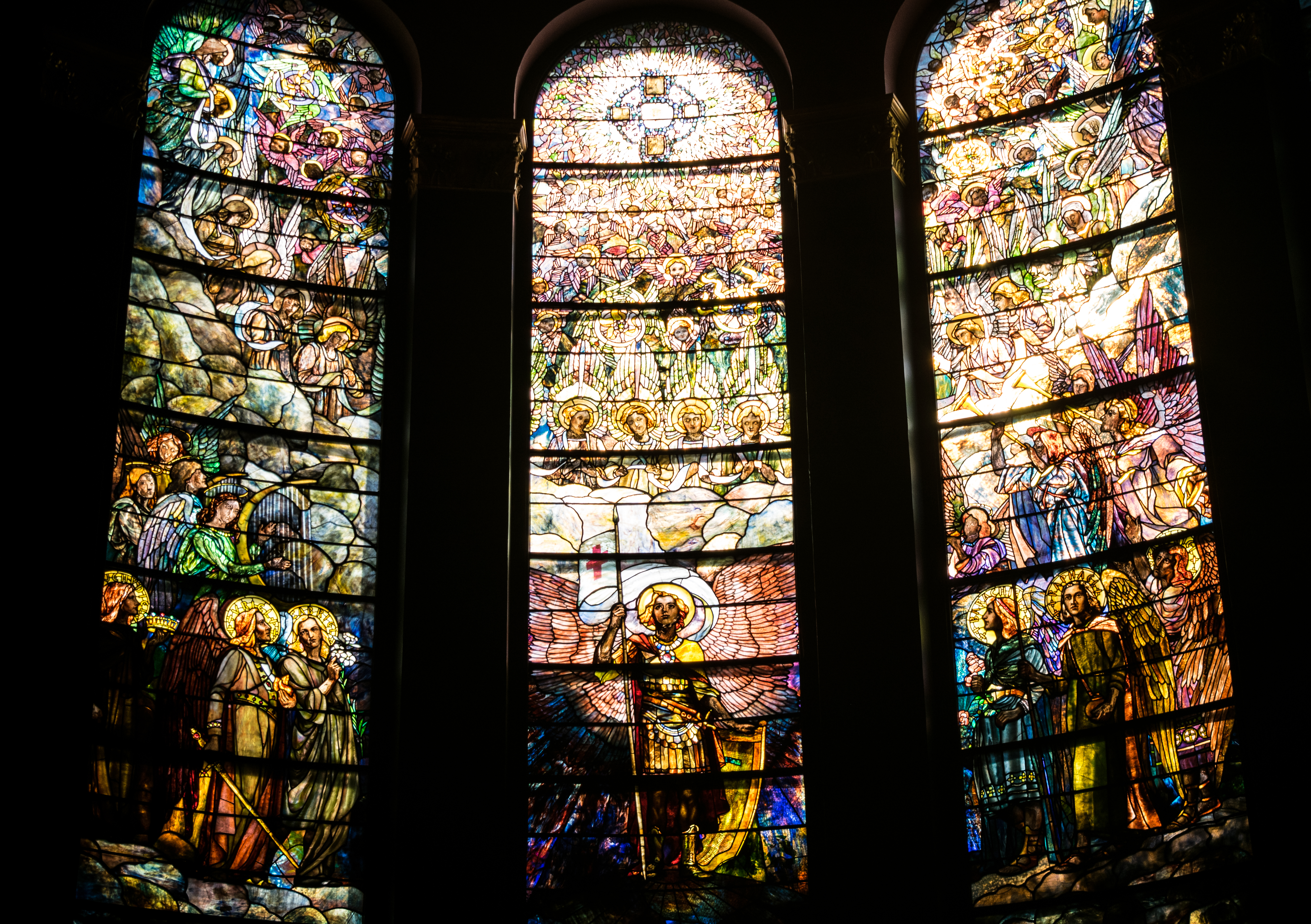 Site: St. Michael's Episcopal Church